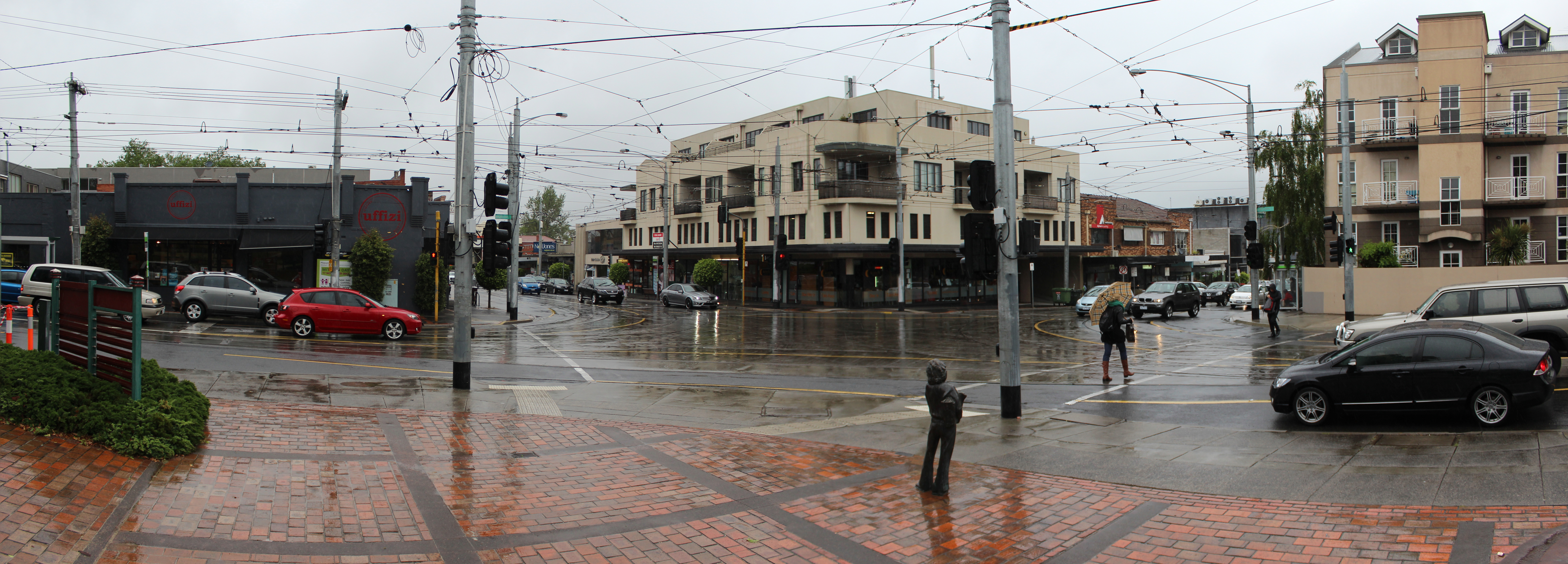 A panorama of Balaclava Junction made from three pictures taken in November 2013. The photographs are taken from the north eastern corner of the junction. Balaclava Junction is the only grand union on the Melbourne tram system, and in Australia (at the time the picture was taken).